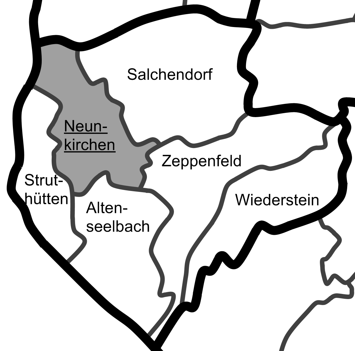 Location of Neunkirchen within the community Neunkirchen.